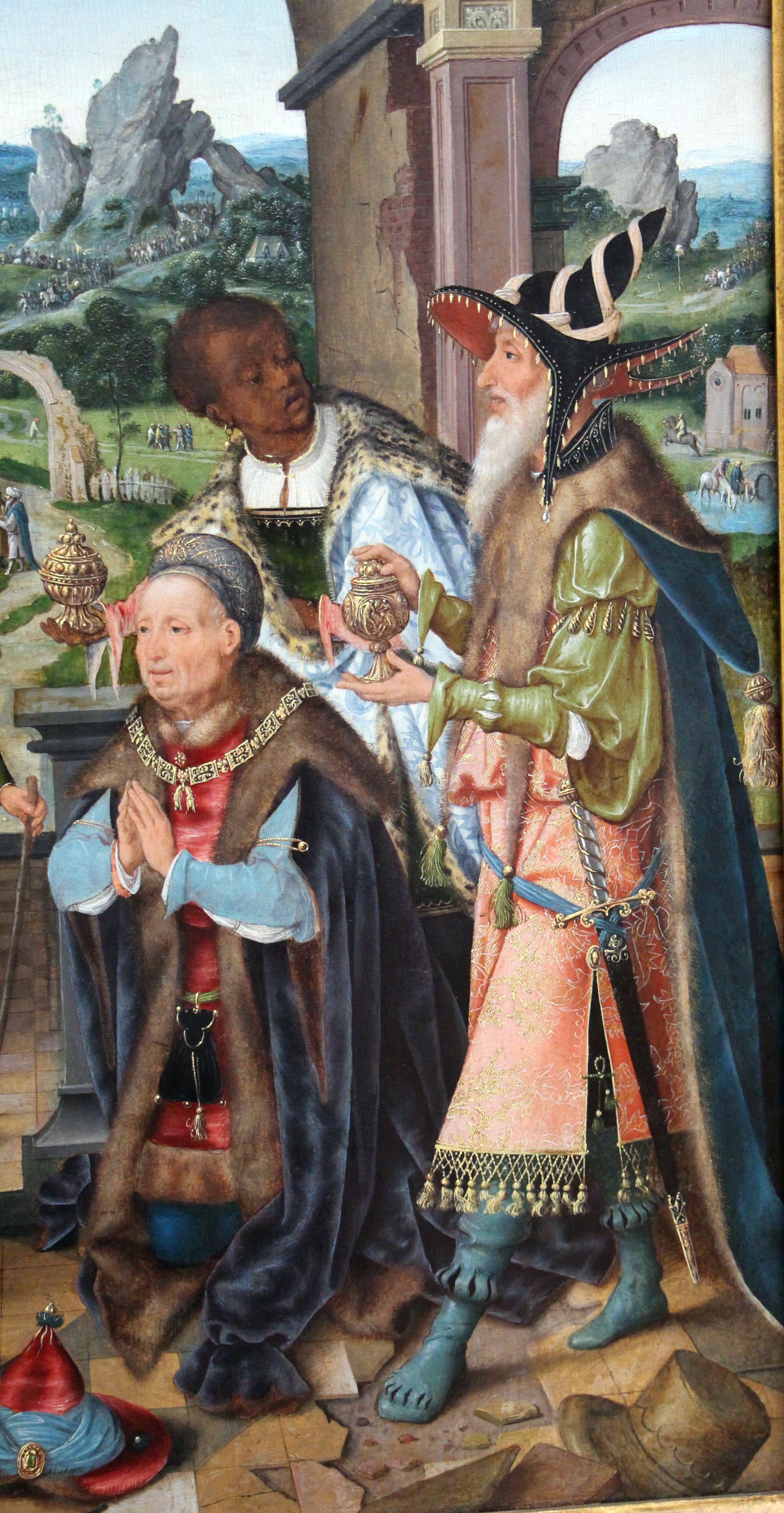 Flemish and Dutch Renaissance paintings in the Gemäldegalerie, Berlin